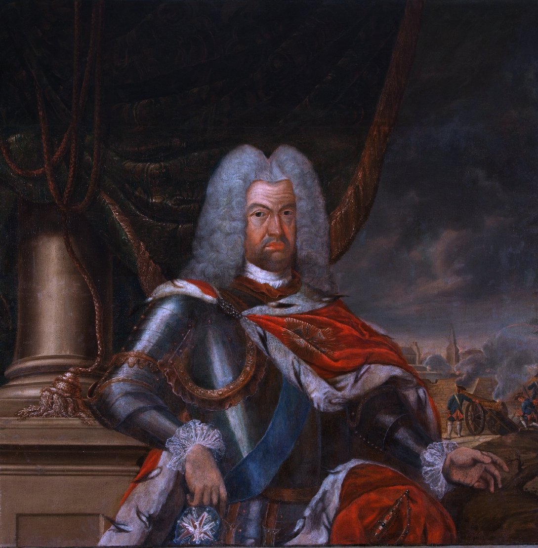 Franciszek Wielopolski the Elder (c.1658-1732)